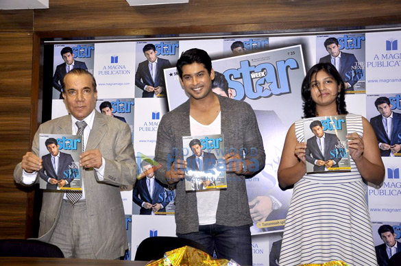 Sidharth Shukla unveils Magna magazine’s latest issue